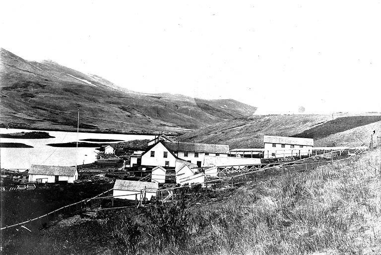 On verso of image: Alaska Packers Association Hatchery at Karluk In Folder 110 Subjects (LCTGM): Fish hatcheries--Alaska--Karluk Subjects (LCSH): Alaska Packers Association; Salmon industry--Alaska--Karluk